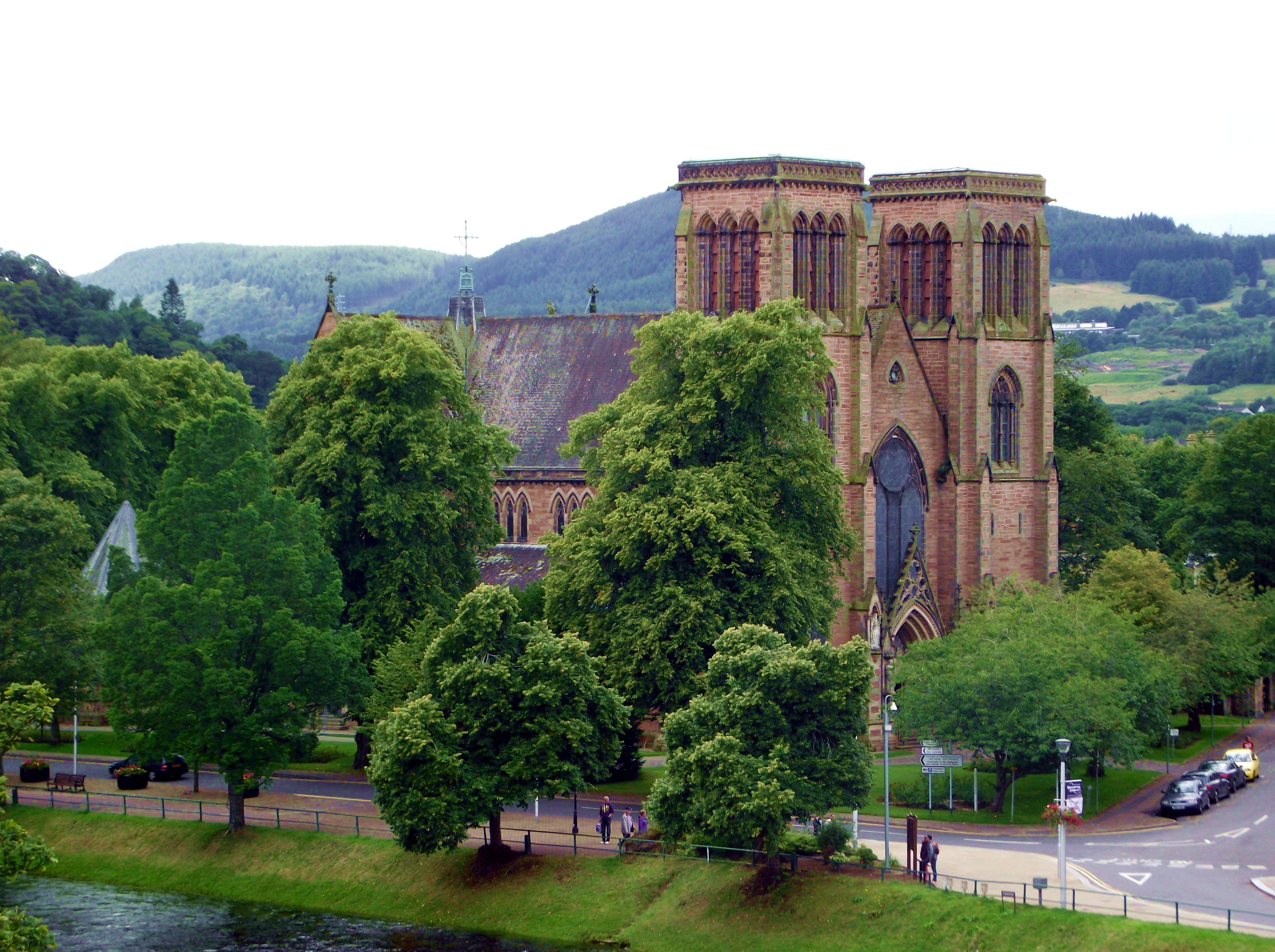 Inverness Cathedral, also known as the Cathedral Church of Saint Andrew (1866-69) is a cathedral of the Scottish Episcopal Church situated in the city of Inverness in Scotland. It is the seat of the Bishop of Moray, Ross and Caithness, ordinary of the Diocese of Moray, Ross and Caithness. The architect was Alexander Ross, who was based in the city. Construction began in 1866 and was complete by 1869, although a lack of funds precluded the building of the two giant spires of the original design. St Andrews Catherdal sits on the west bank of the river Ness, directly across from Ness Bank Church. Each Friday afternoon a group of local folk interested in hisotry and architecture go for a photo-walk around the city of Inverness (or its environs) and admire the scenery and buildings. This week we visited Ness Bank Church, and then climed the adjacent brae to Inverness Castle to enjoy the views from the Castle Hill. These are some of the photos I took en route.